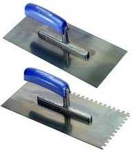 Adhesive trowels, (A straight and a notched one below.)